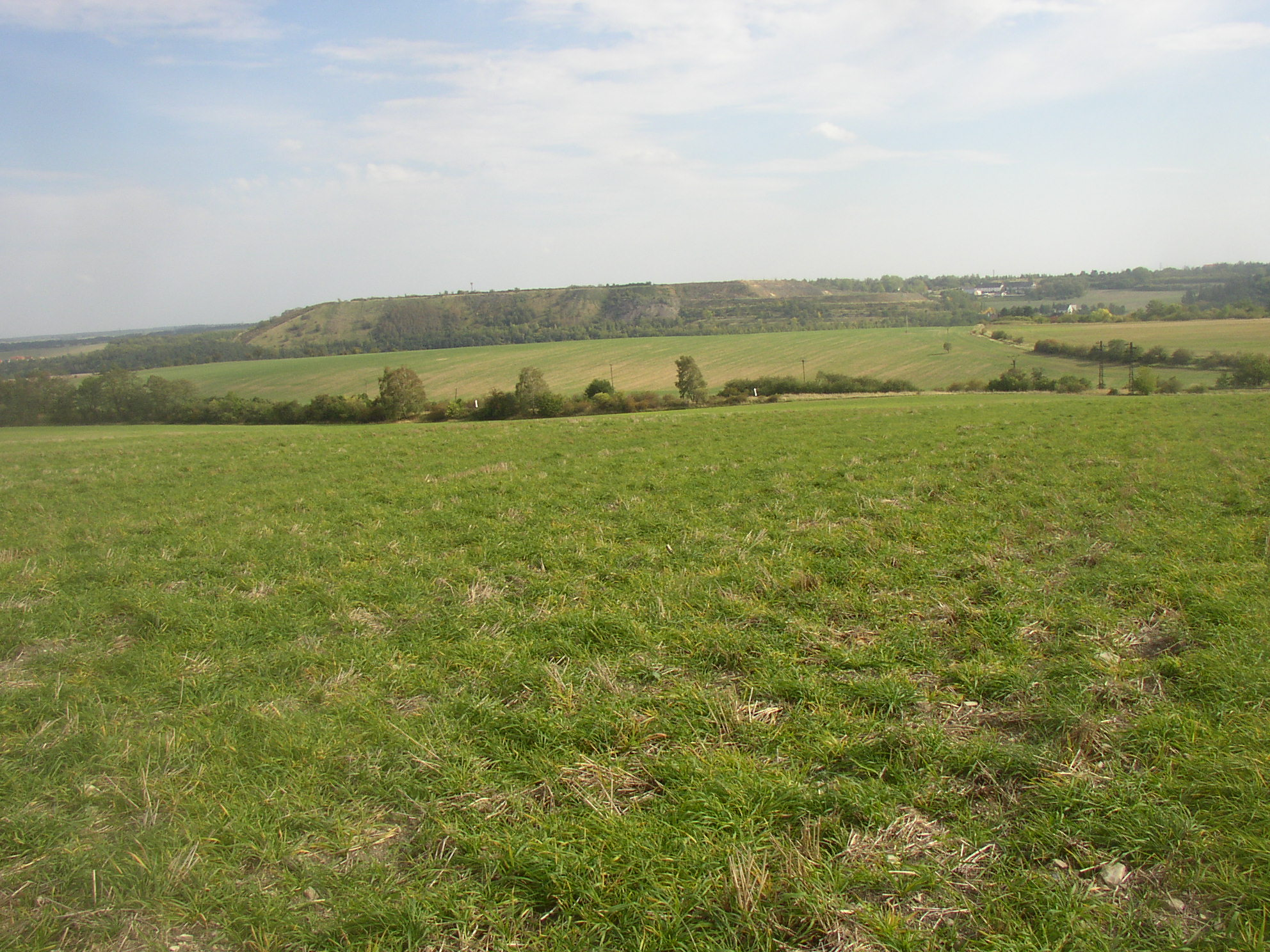 Buštěhrad slag heap (composed of waste tailings from local steelworks and another industrial waste) near city of Kladno, Czech Republic. A view from the northwest, from a field between defunct Central Bohemian Brewery and village of Cvrčovice. Approximate extent of still active part is given by terraces in the right.